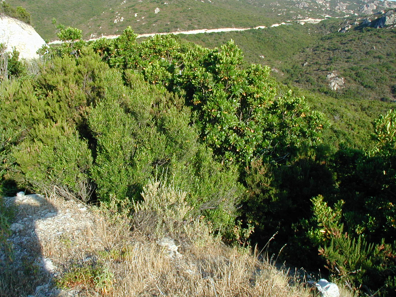 Maquis with Arbutus unedo, Myrtus communis and Erica arborea in the foreground. Nortwestern Corsica